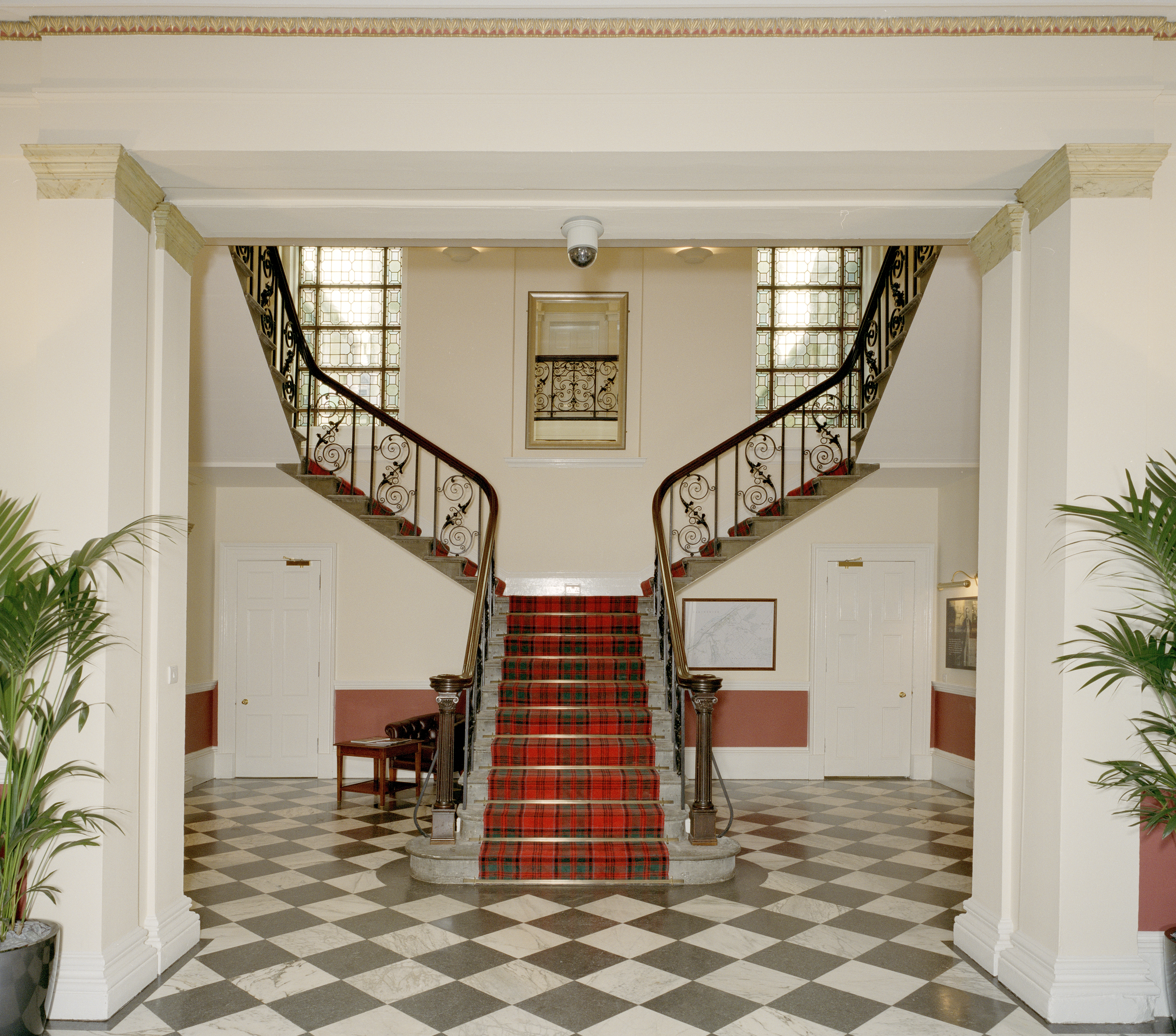 The front hall of Aberlour House with its cantilevered staircase, which rises to the full height of the house.